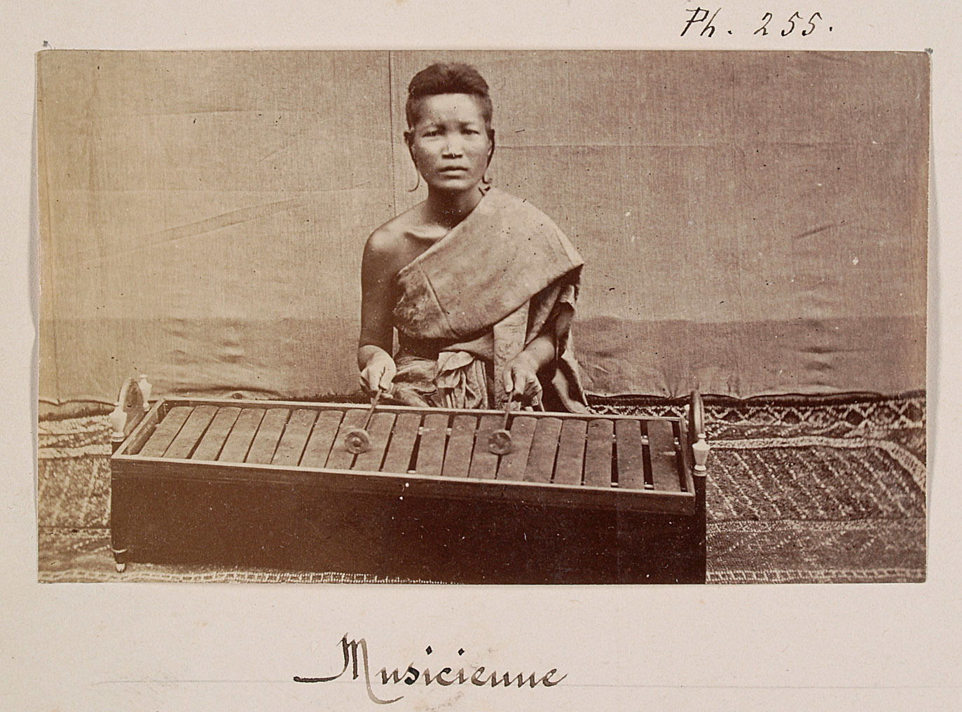 Khmer female musician taken by Emile Gsell, mid 1800s. Cambodia OLYMPUS DIGITAL CAMERA